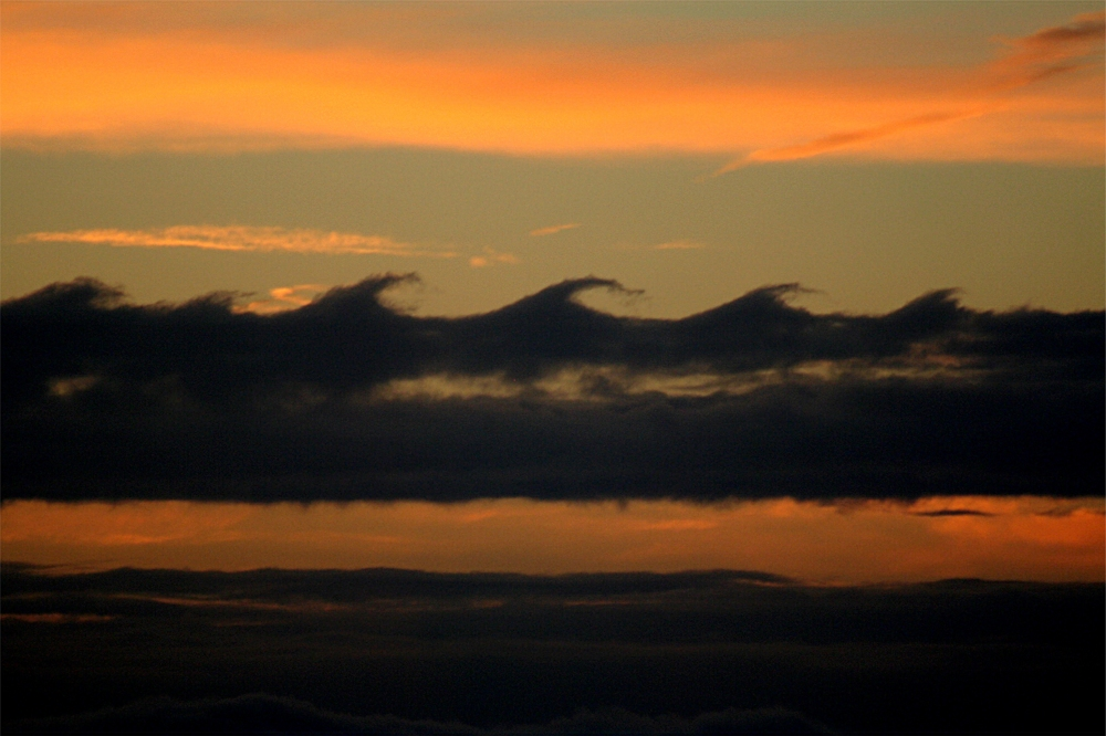 Kelvin Helmholtz instability clouds in San Francisco.These clouds, sometimes called "billow clouds," are produced by instability, when horizontal layers of air brush by one another at different velocities. A better name might be van Gogh clouds: It is widely believed that these waves in the sky inspired the swirls in van Gogh's masterpiece Starry Night